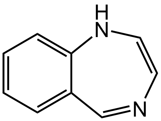 Structure of 1H-benzo[e][1,4]diazepine